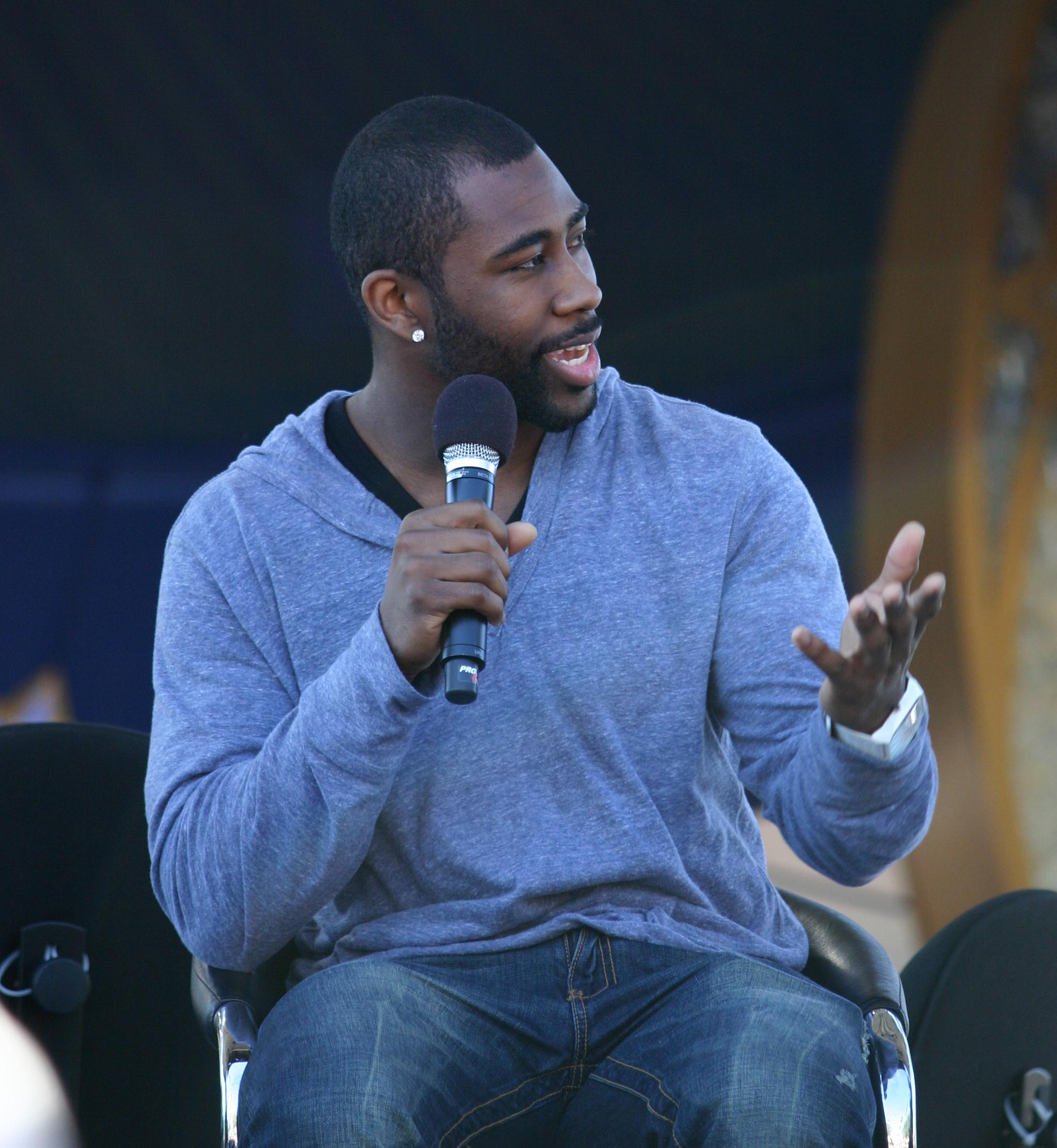 Derrelle Rivas at the Sorcerer Hat Stage during ESPN The Weekend, February 26, 2010